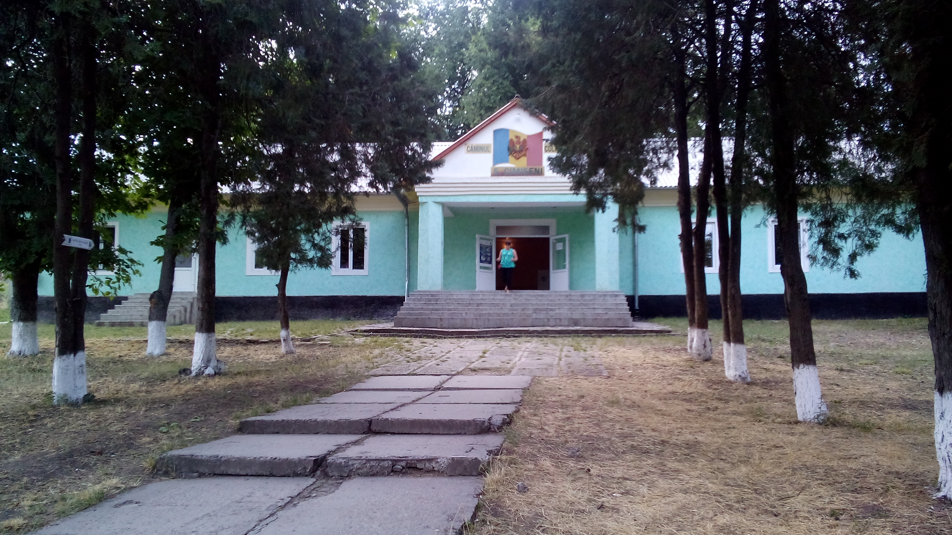 Culture building in Cimișeni.